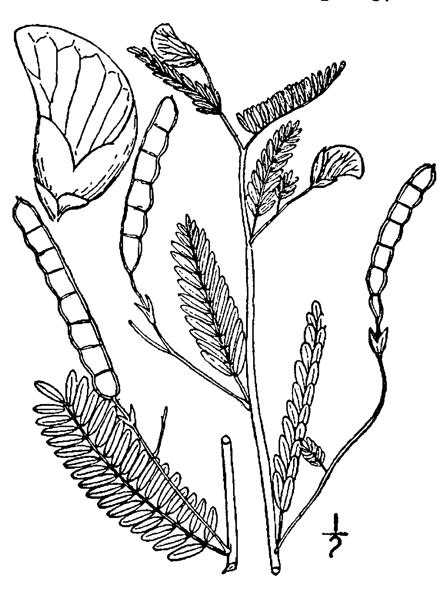 Virginia Jointvetch. Drawing.